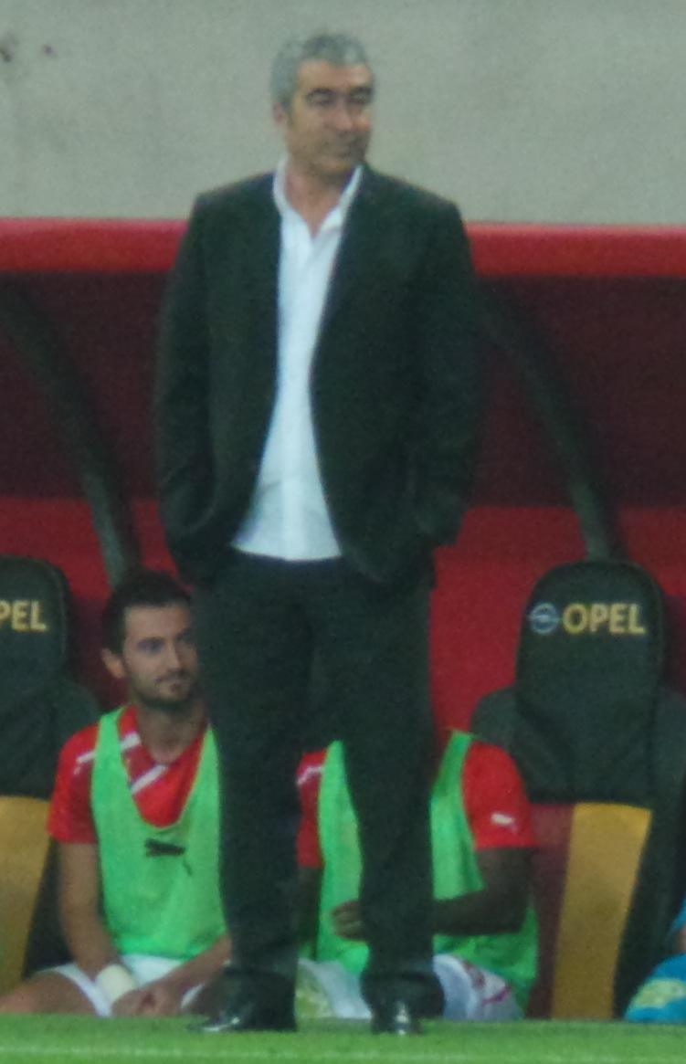 Samet Aybaba with Antalyaspor